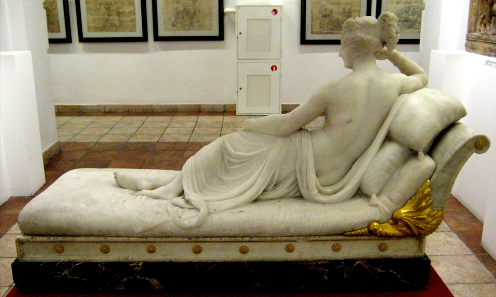 Venus Victrix by Canova. Cast in Pushkin museum